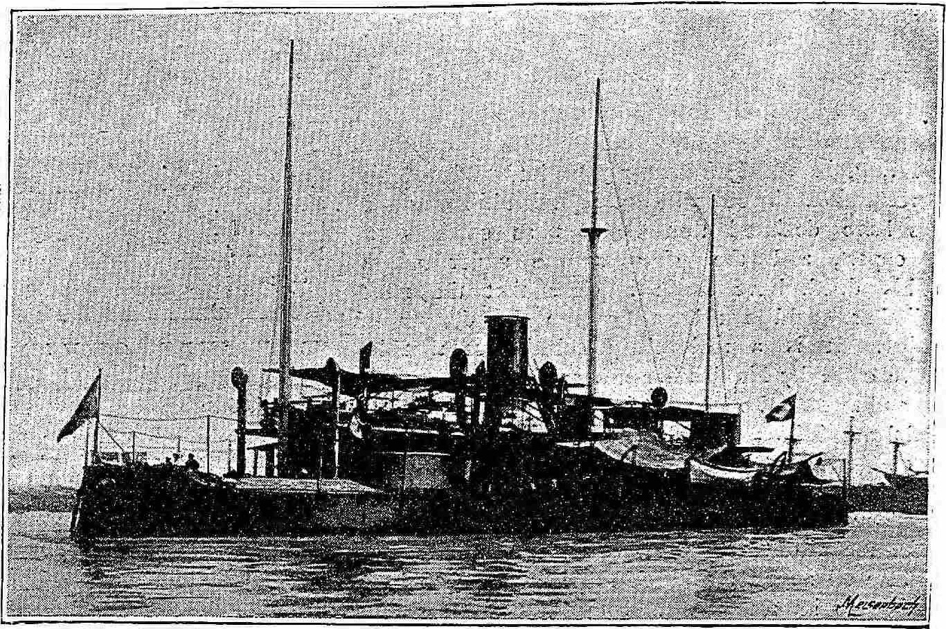 THE MONITOR "JAVARY" sunk of Fort Villegaignon on November 22 by a shell from a Government fort.